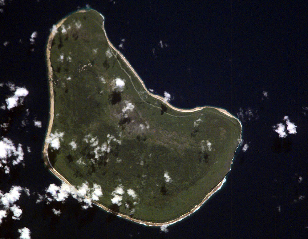 NASA astronaut image of Makatea Island (Tuamotu Archipelago, French Polynesia) in the Pacific Ocean